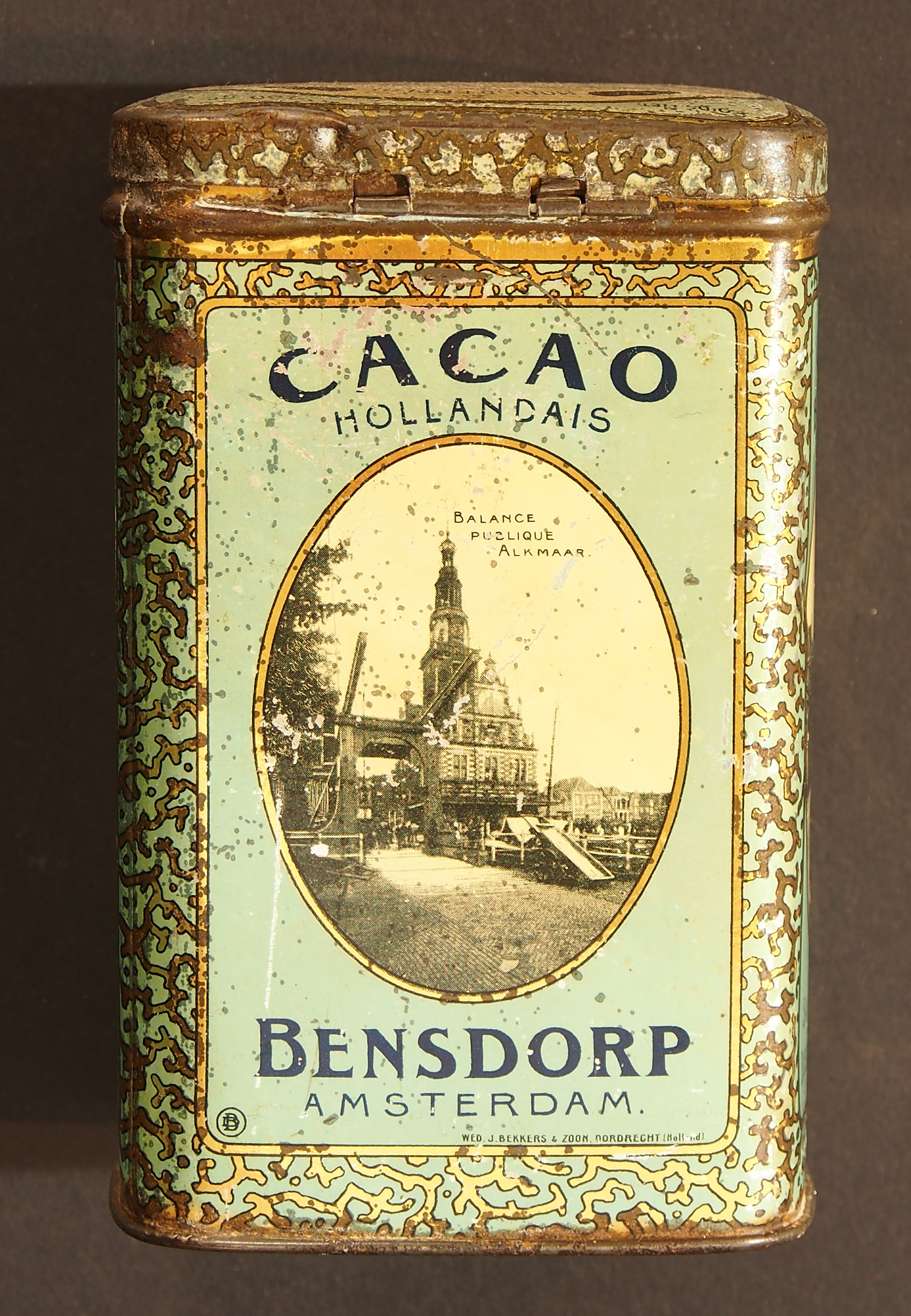 Old product that is not sold/produced anymore!